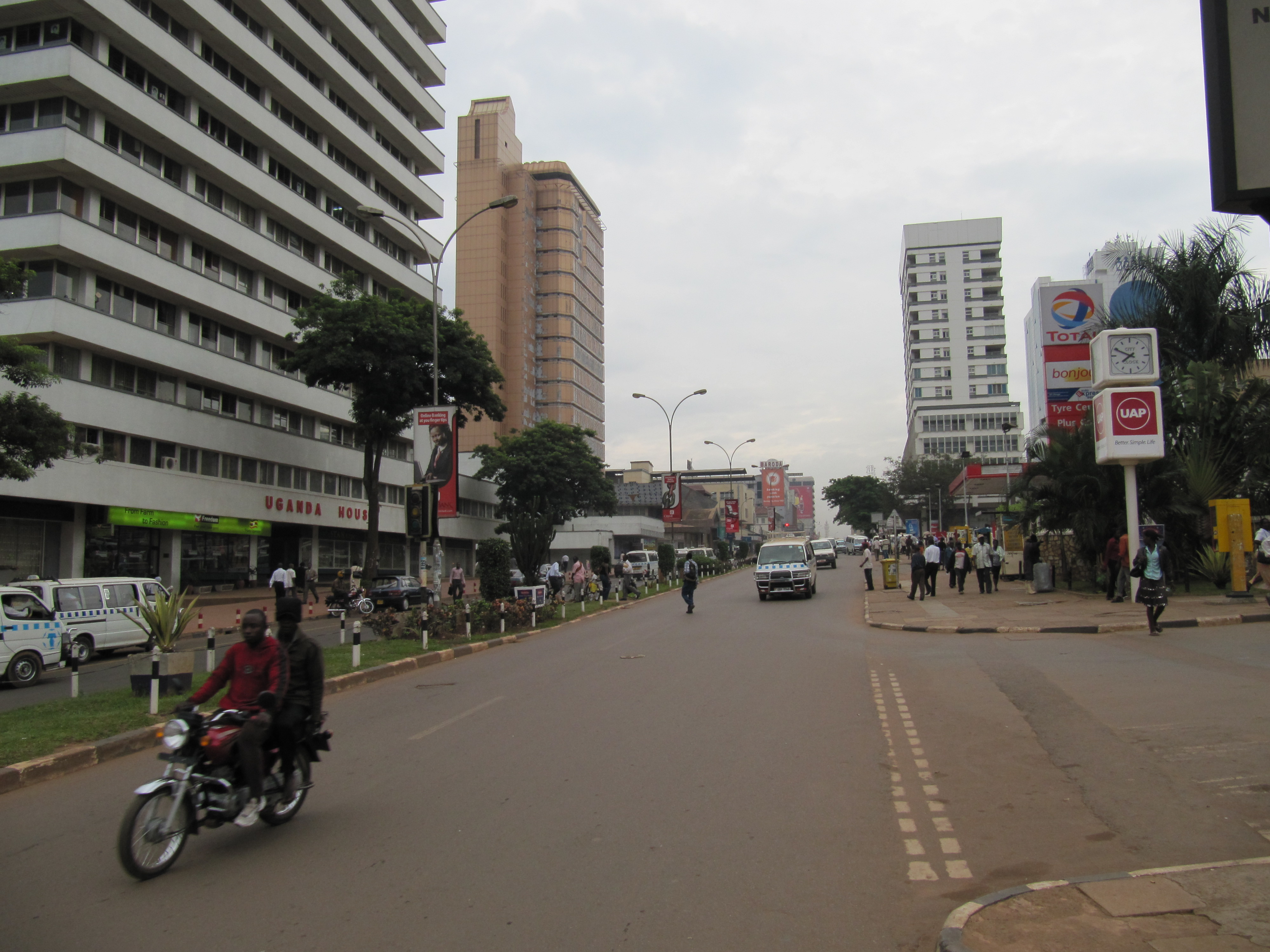 Kampala, Kampala Road